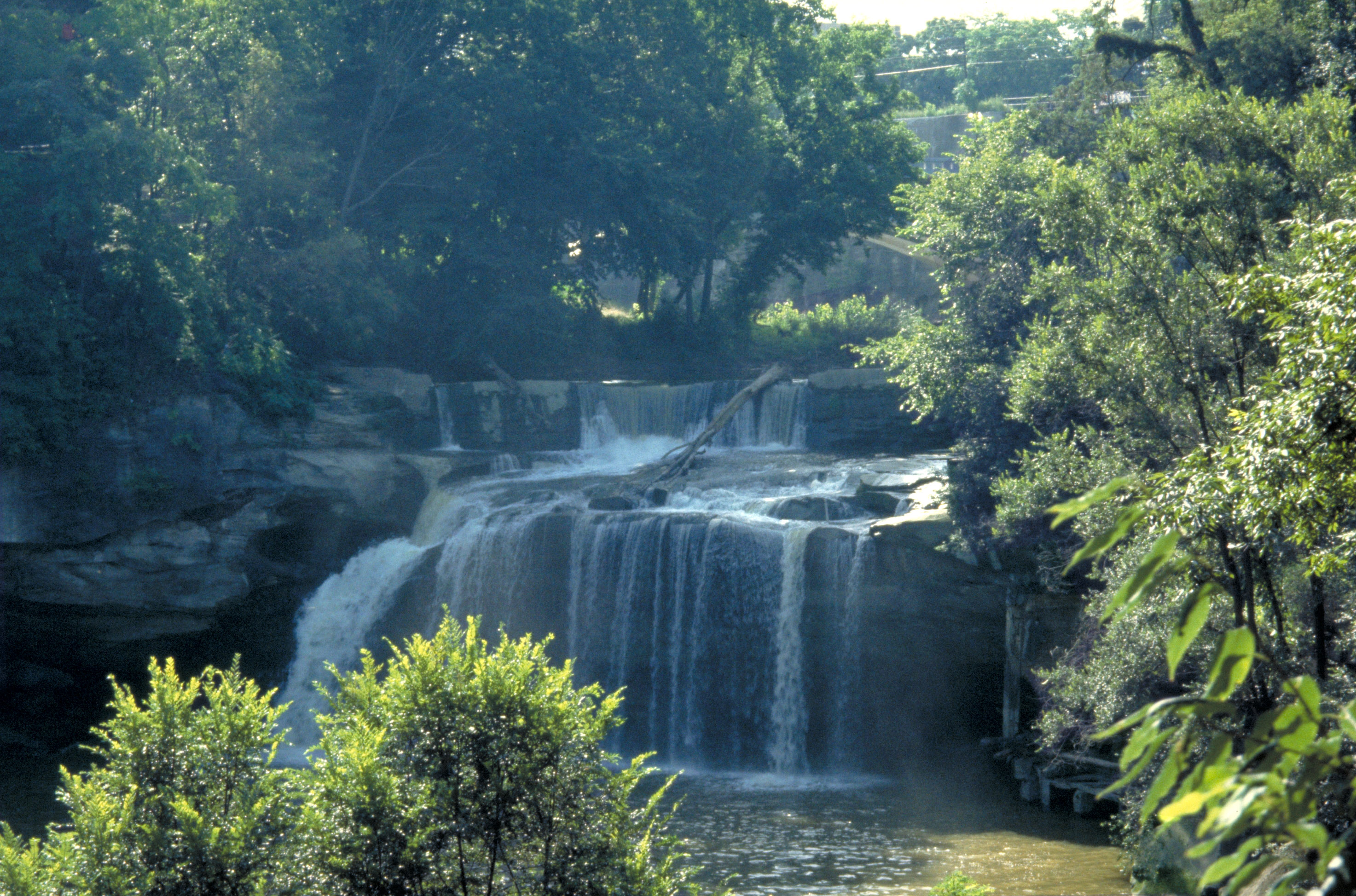 A picture of the East Falls on the Black River.